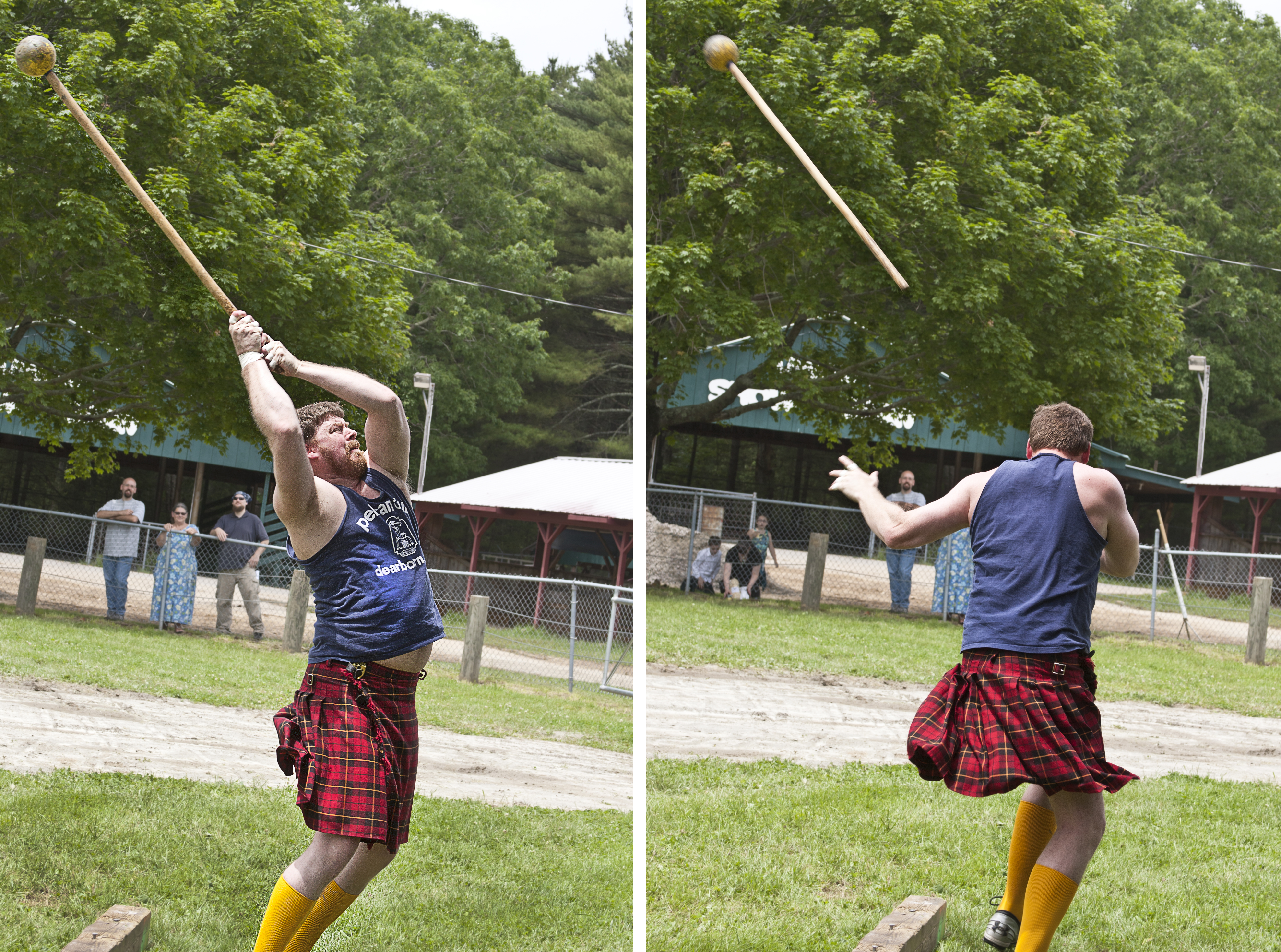 the hammer toss, RI Scotish Highland Festival, 2012-06-09